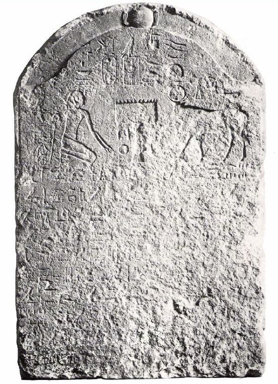 Apis stele dated to the regnal year 6 of Cambyses (524 BCE), and depicting the king (kneeling, left) as an Egyptian pharaoh, while worshiping a dead Apis bull (right)[1]